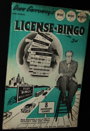 License Bingo game featuring Dave Garroway and Wide Wide World. The item is shown as being under copyright as of 1958. Copyright searches were performed on the following with the following results: Midwestern Publishing Company-no results Dave Garroway-two results which do not apply to this item. There is no evidence a copyright was renewed and continues to be claimed on this item. The original photo was adjusted for tint and to make the wording more legible, and was cropped.